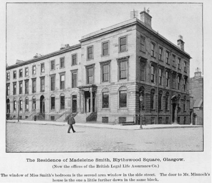 Image from the Scottish trial of Madeline Smith